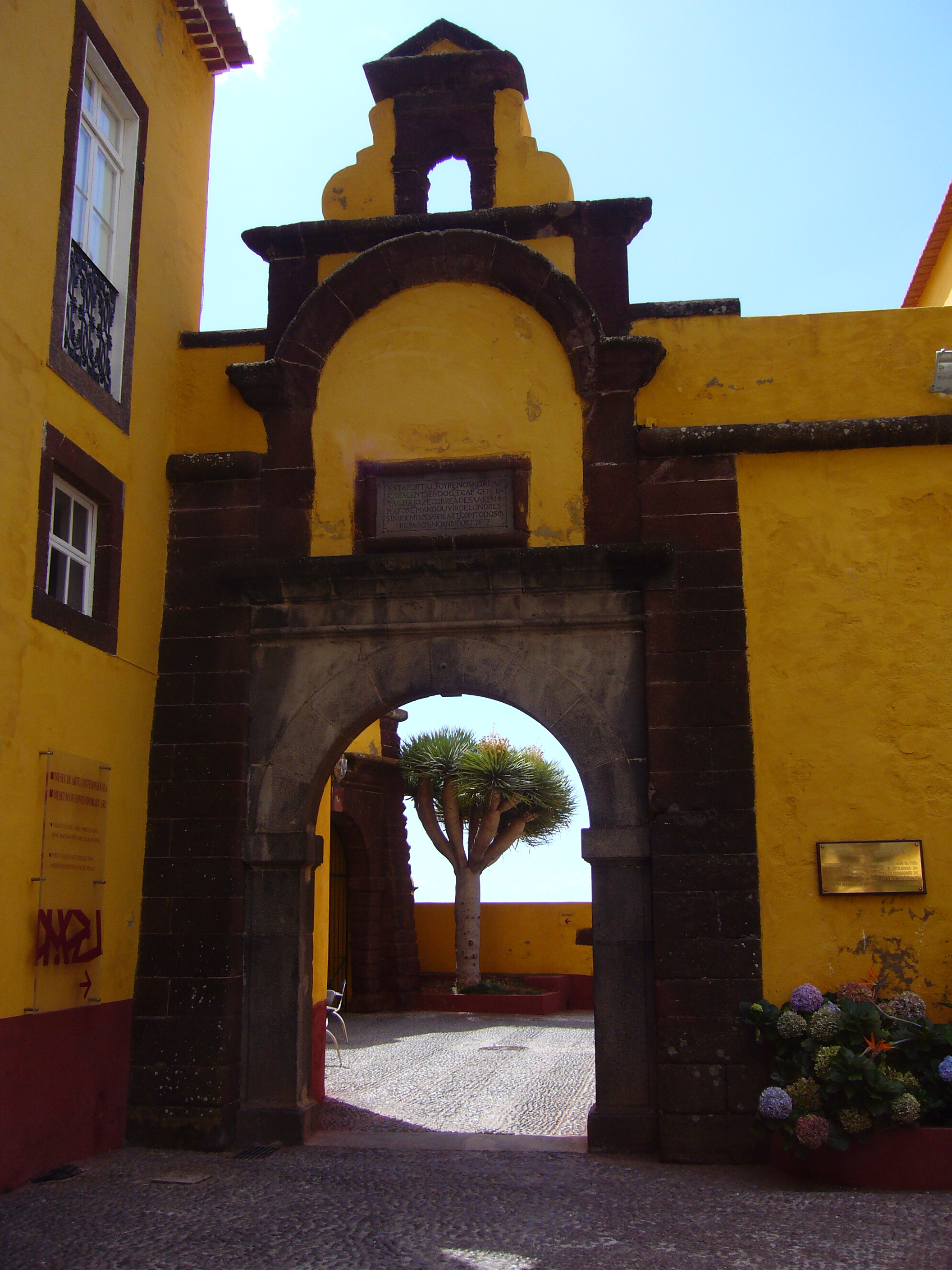 The entrance gate to São Tiago fortress in Funchal